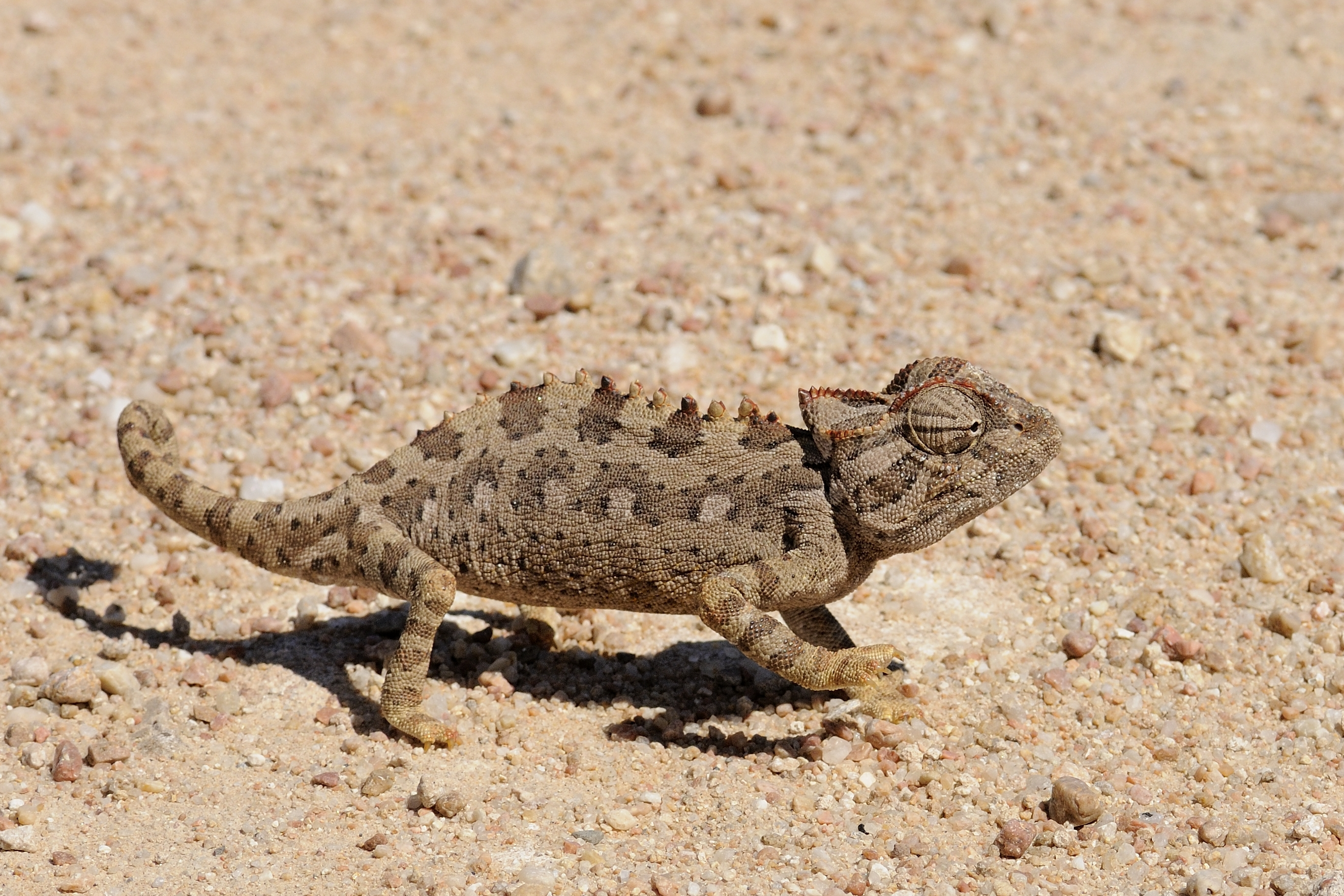 Namaqua Chameleon (Chamaeleo namaquensis) Namib